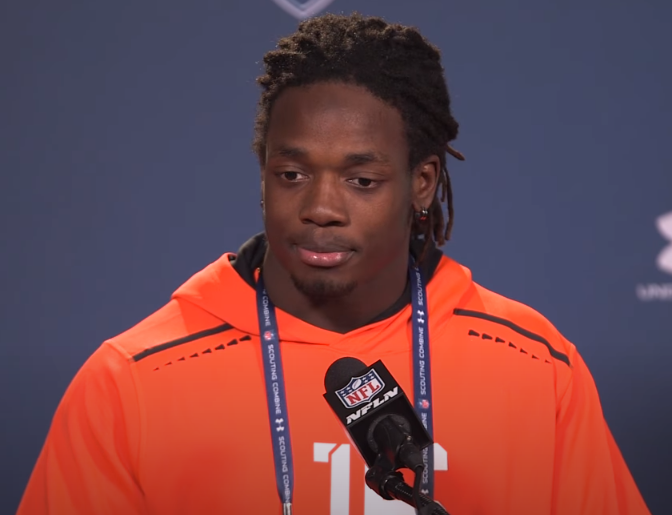 In 2015